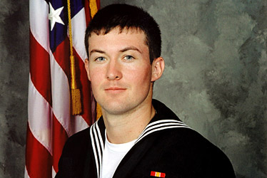 Ariel Weinmann US Navy Portrait